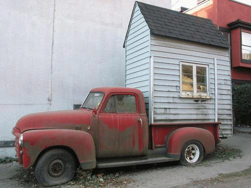 Found in an alleyway in Kit's point, Vancouver. 1951 GMC New Design 101-22 pickup.